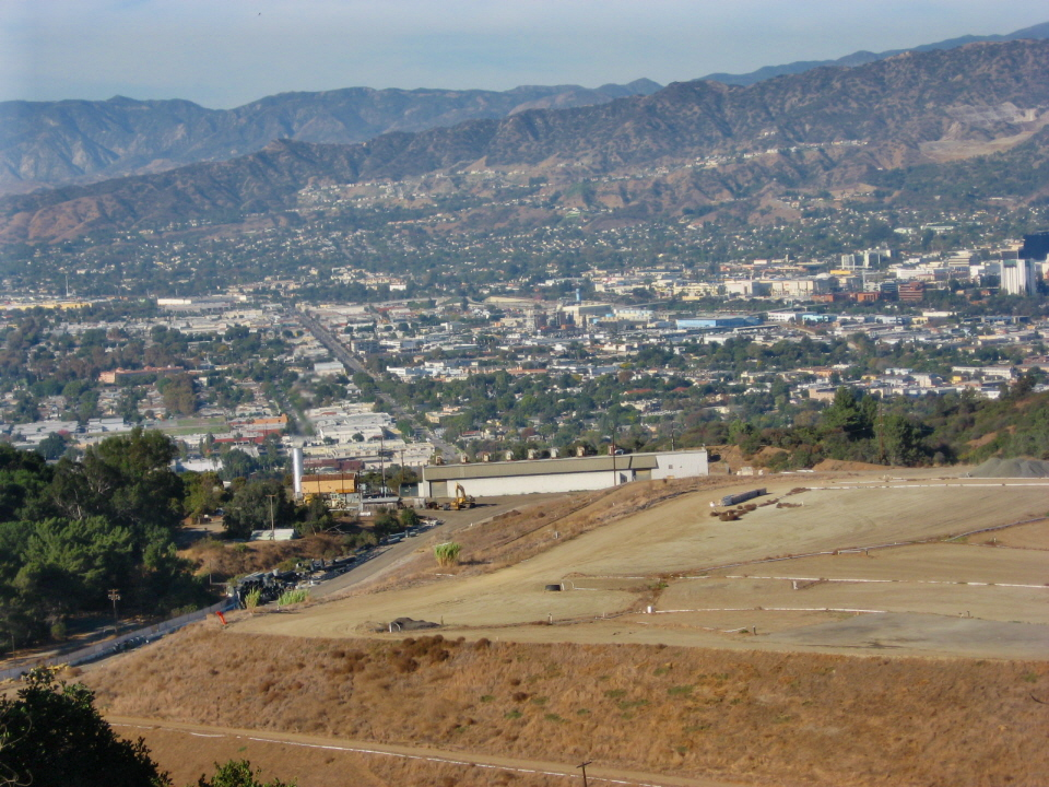 Toyon landfill in Griffith Park, Los Angeles, California, before the May 2007 fire.